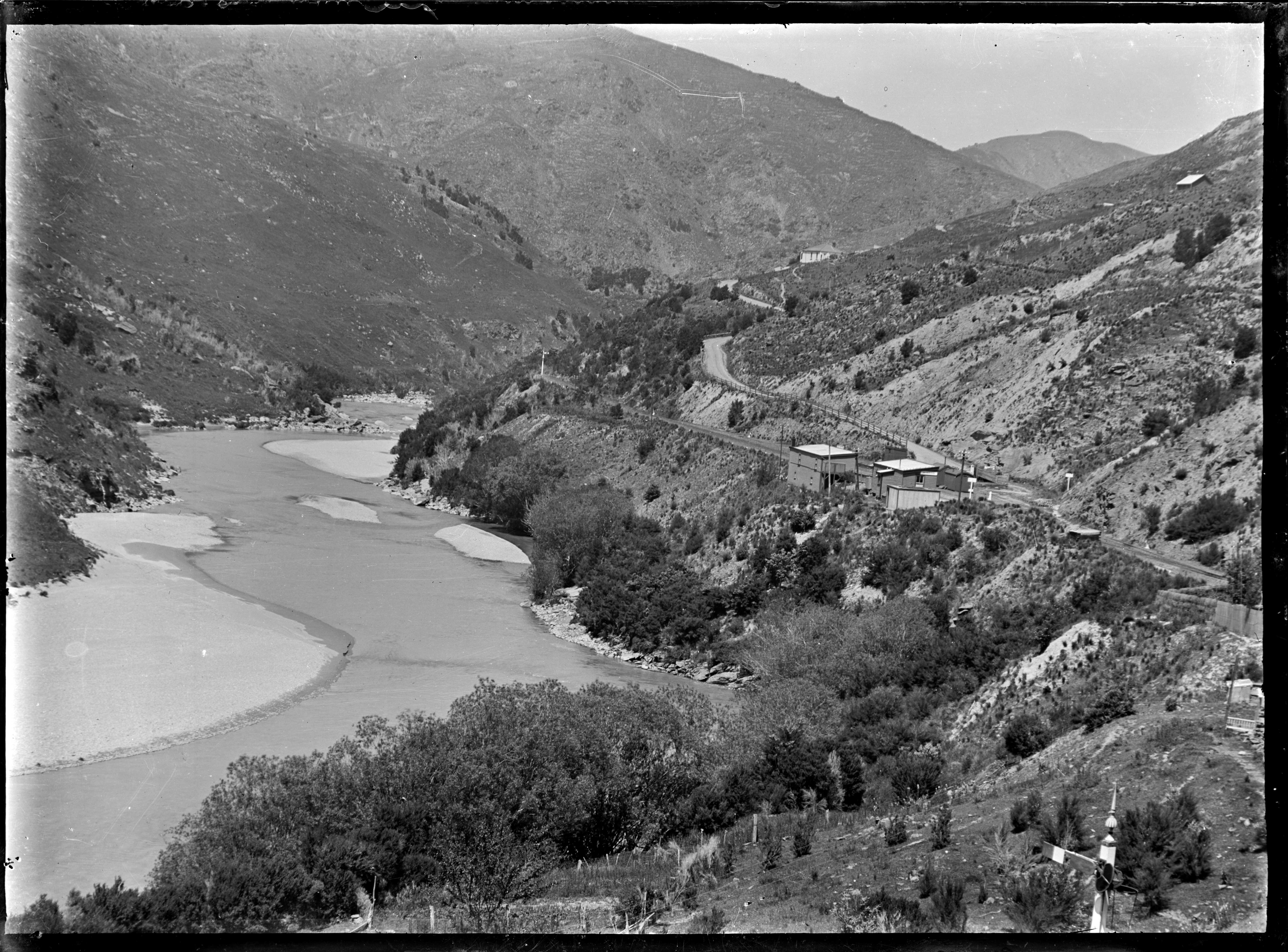 View of the Hindon Railway Station on the Otago Central Branch Line, alongside the Taieri River. Photographed by Albert Percy Godber circa 1926.